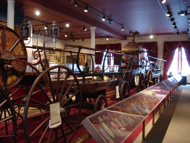 Photo taken upstairs at the New York City Fire Museum. Shows old fire engines set up in a parade formation.